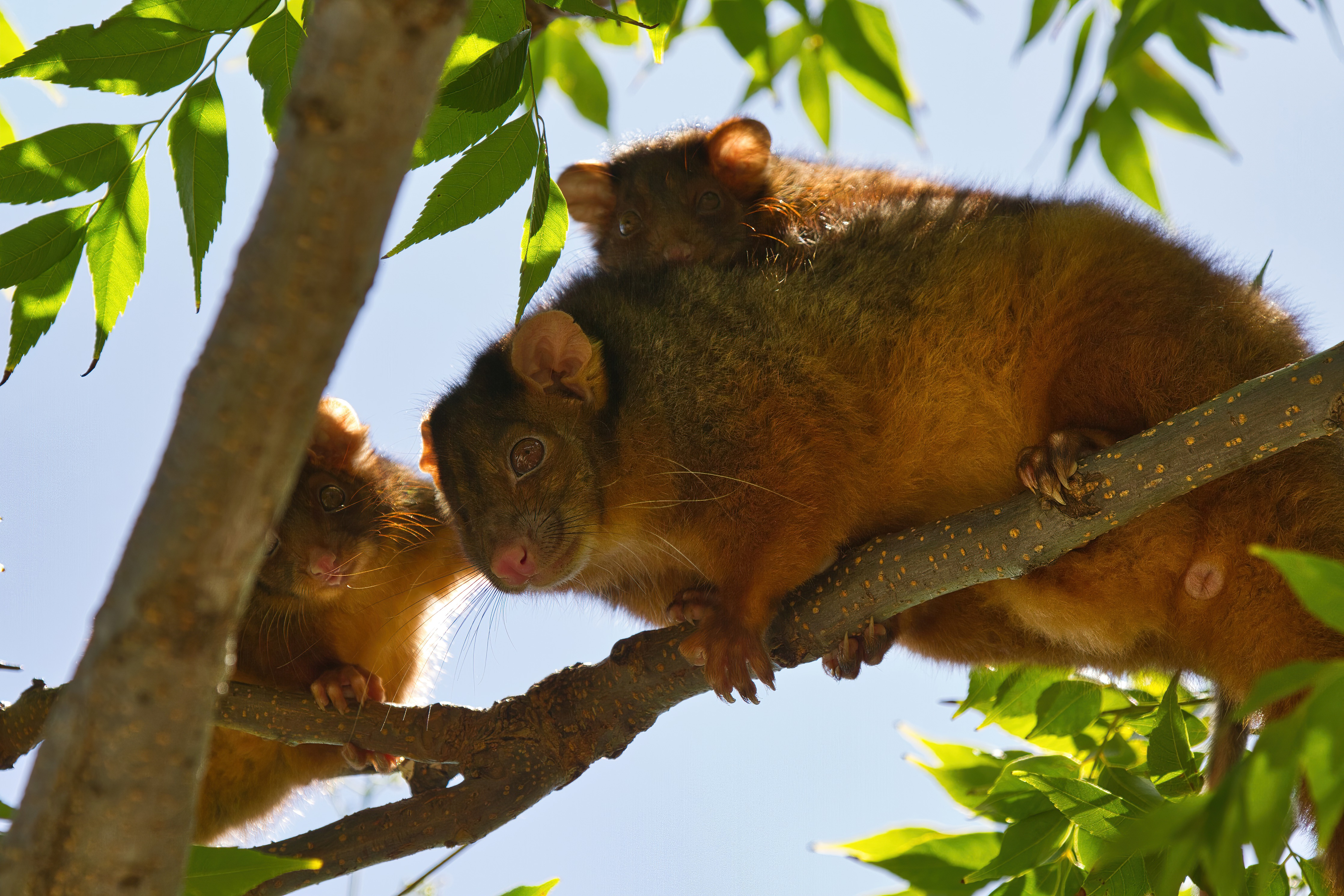 Family of Common Ringtail Possums (Pseudocheirus peregrinus) in Brisbane, Queensland.